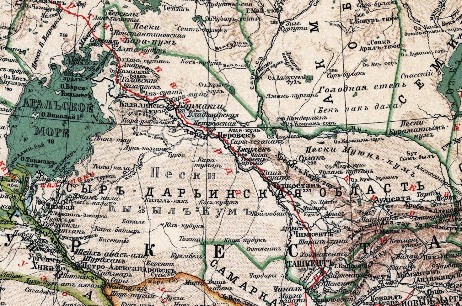 Map of Syr-Darya Oblast (Russian Empire)